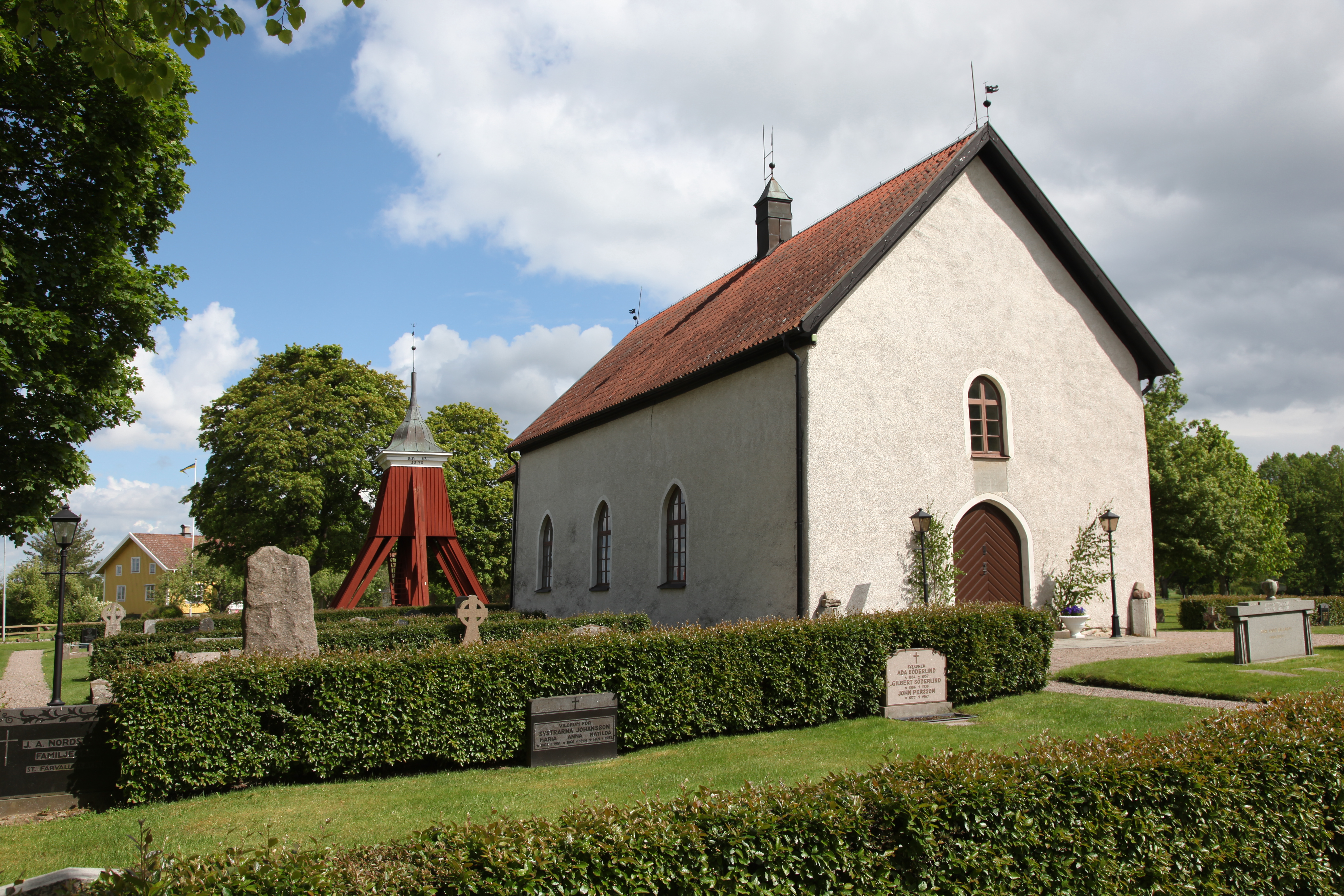 Vättlösa kyrka. A church near Lidköping